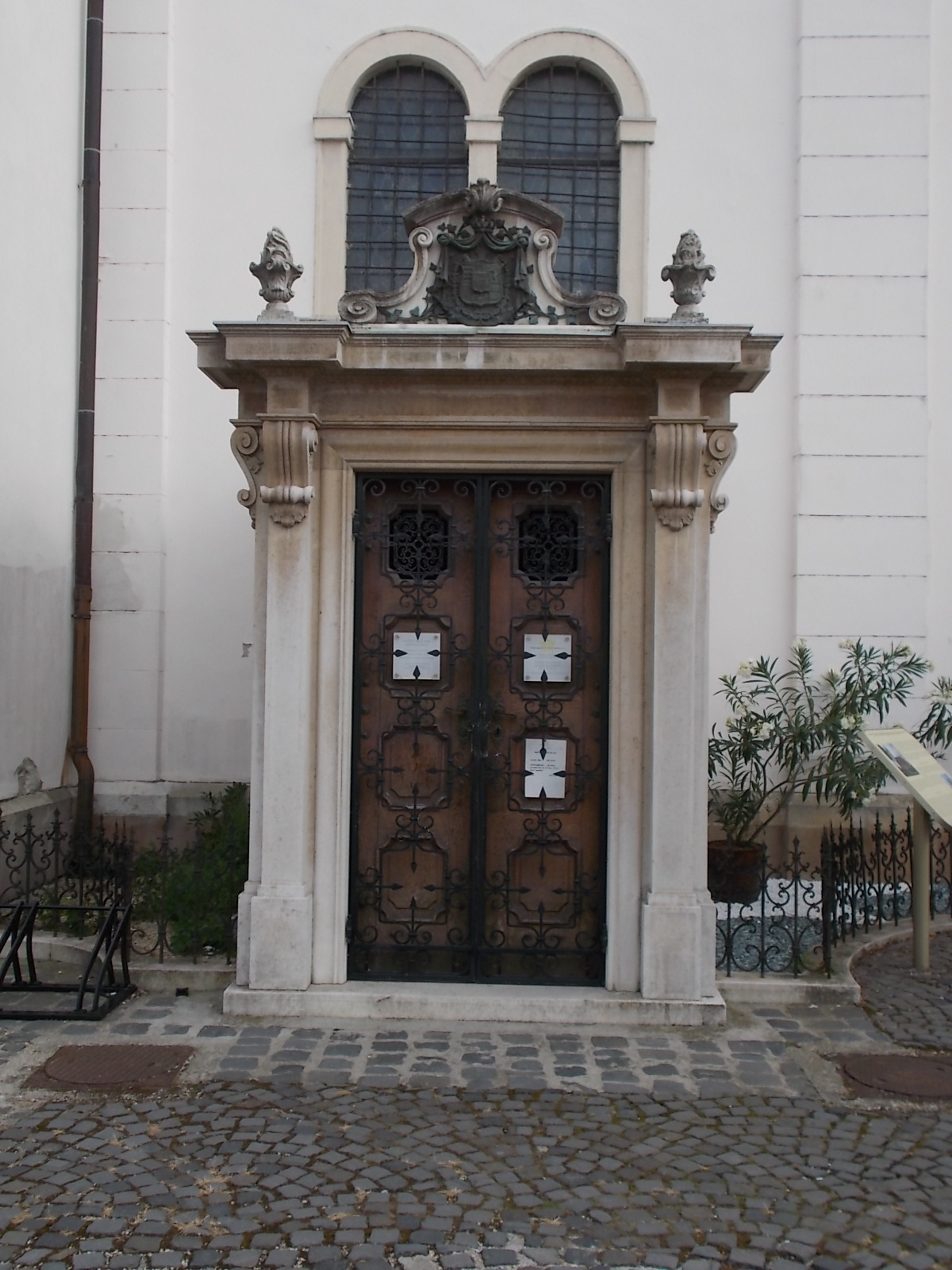 Roman Catholic parish church (Óvár Virgin Mary and Saint Gotthard Church). Medieval origin. Completely rebuilt in Baroque style, 17-18th century. Tower was built in 1820. Inside: wall paintings/murals are Baroque in 1777 by Schellmayer F. Furniture: Baroque, 18th century. - Szent László Square, Magyaróvár neighborhood, Mosonmagyaróvár, Győr-Moson-Sopron County, Hungary.